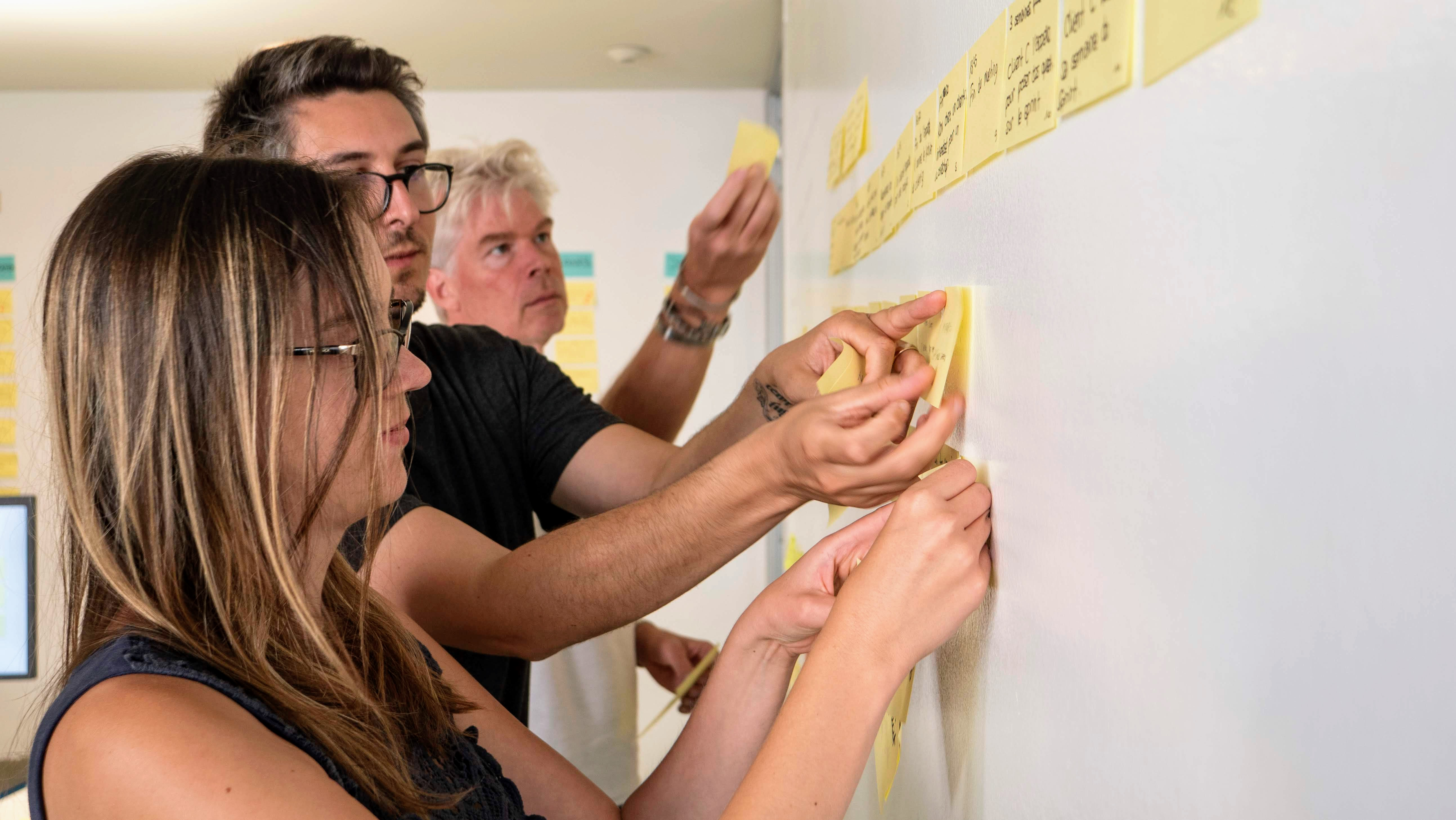 Experience mapping exercice (Day 1)